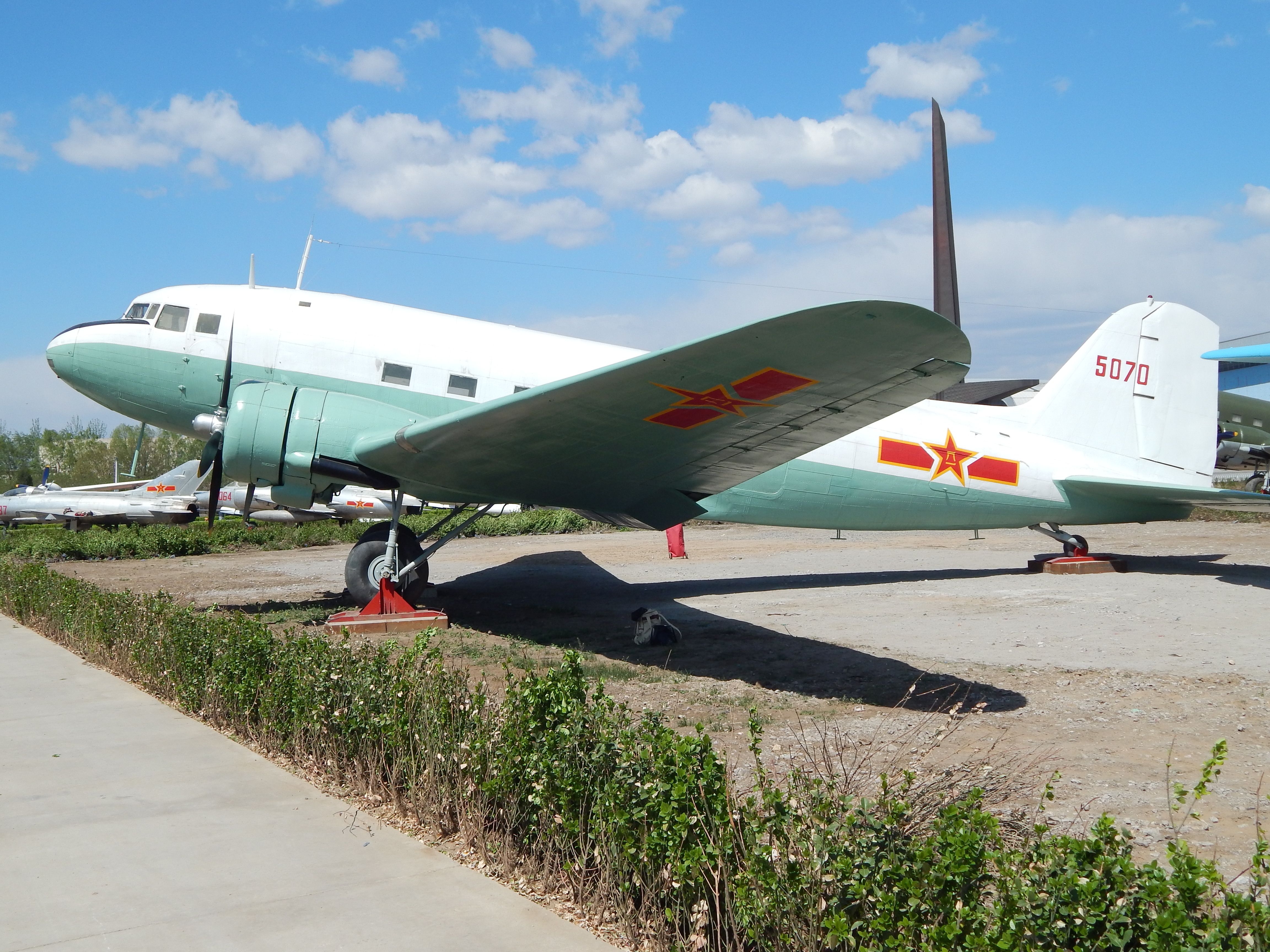 Chinese Air Force C-47, Beijing Aviation Museum